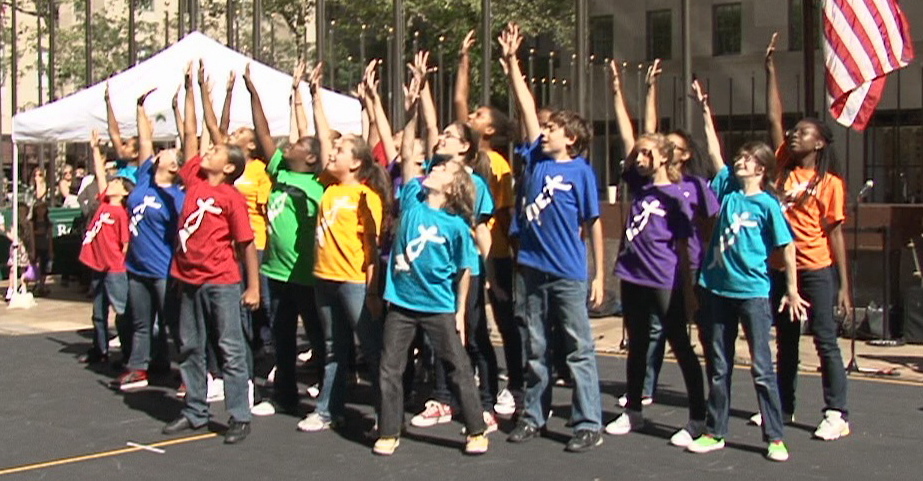 NDI dancers at Sept Concert